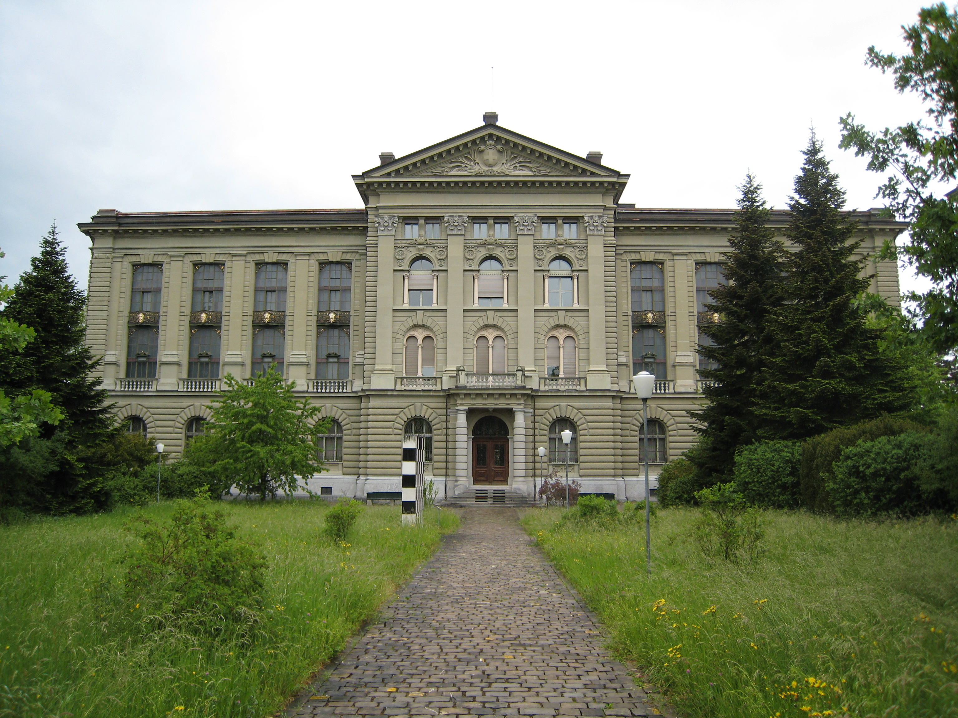 The building of the Swiss Federal Archives, the national archives of Switzerland, in Berne.